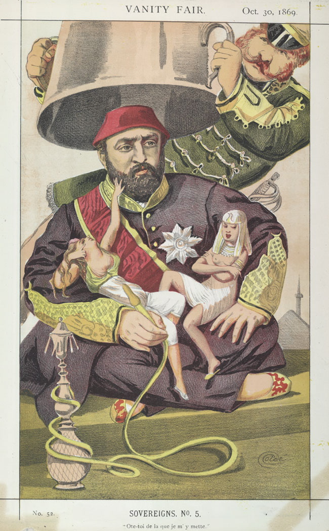 Sovereigns No.5: Caricature of Sultan Abdul Aziz of Turkey. Caption reads "Ote-toi de la que je m'y mette".